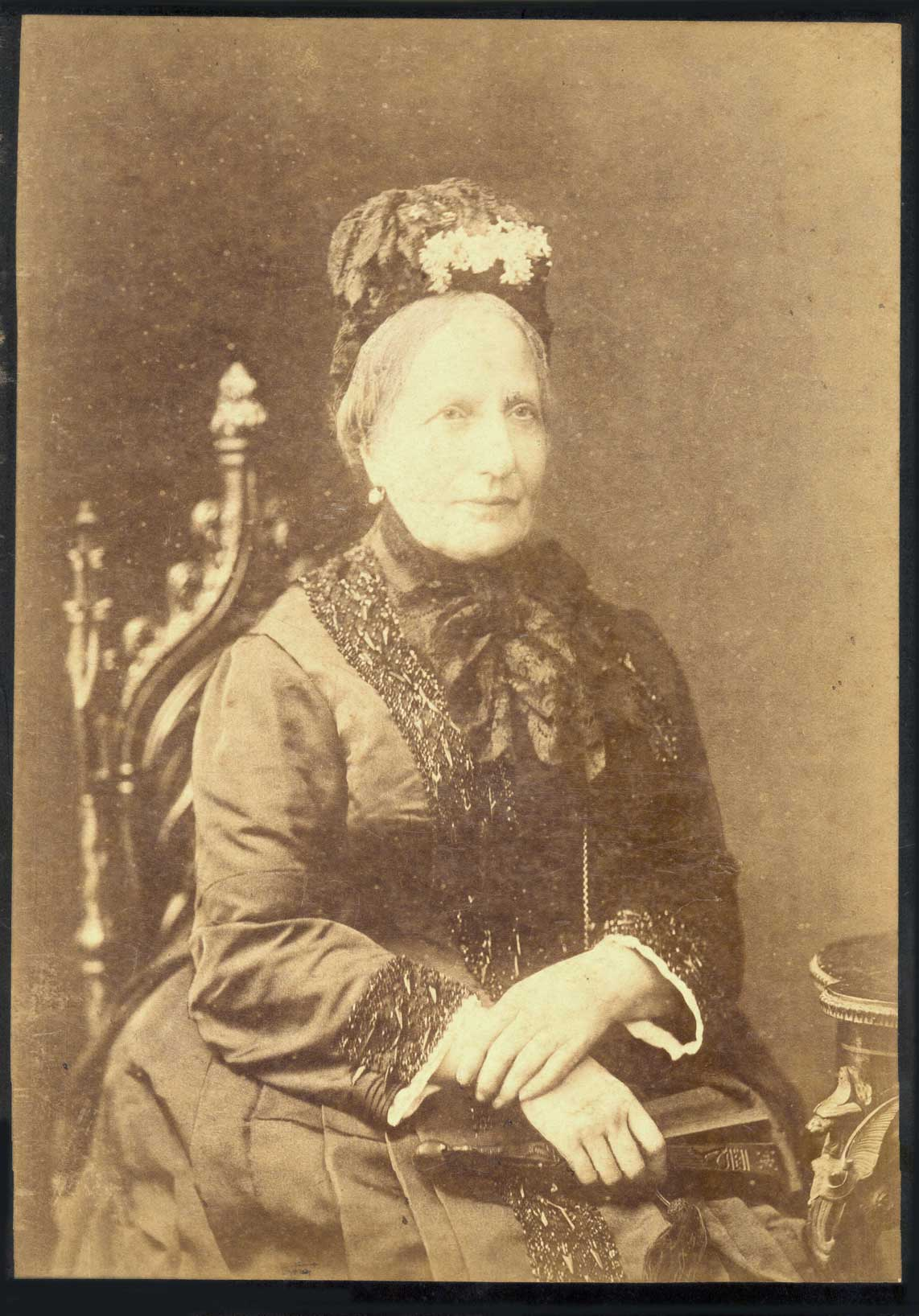 Empress Teresa Cristina (wife of Pedro II of Brazil), c.1887.